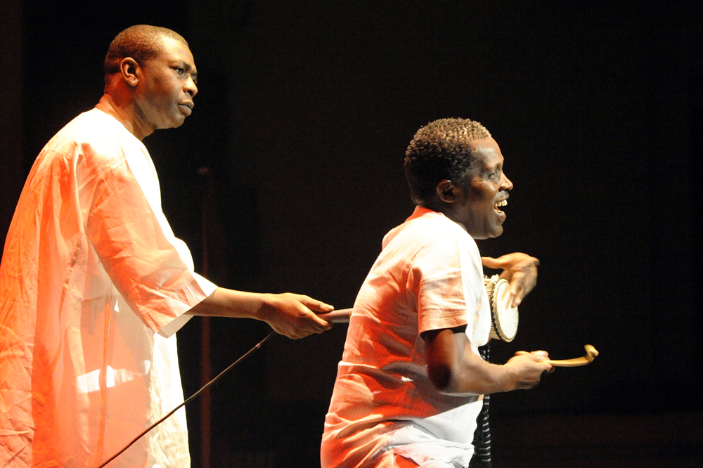 Tama drum player performing with Youssou N'dour in Warszawa, Poland during the 5th Cross Culture Festival